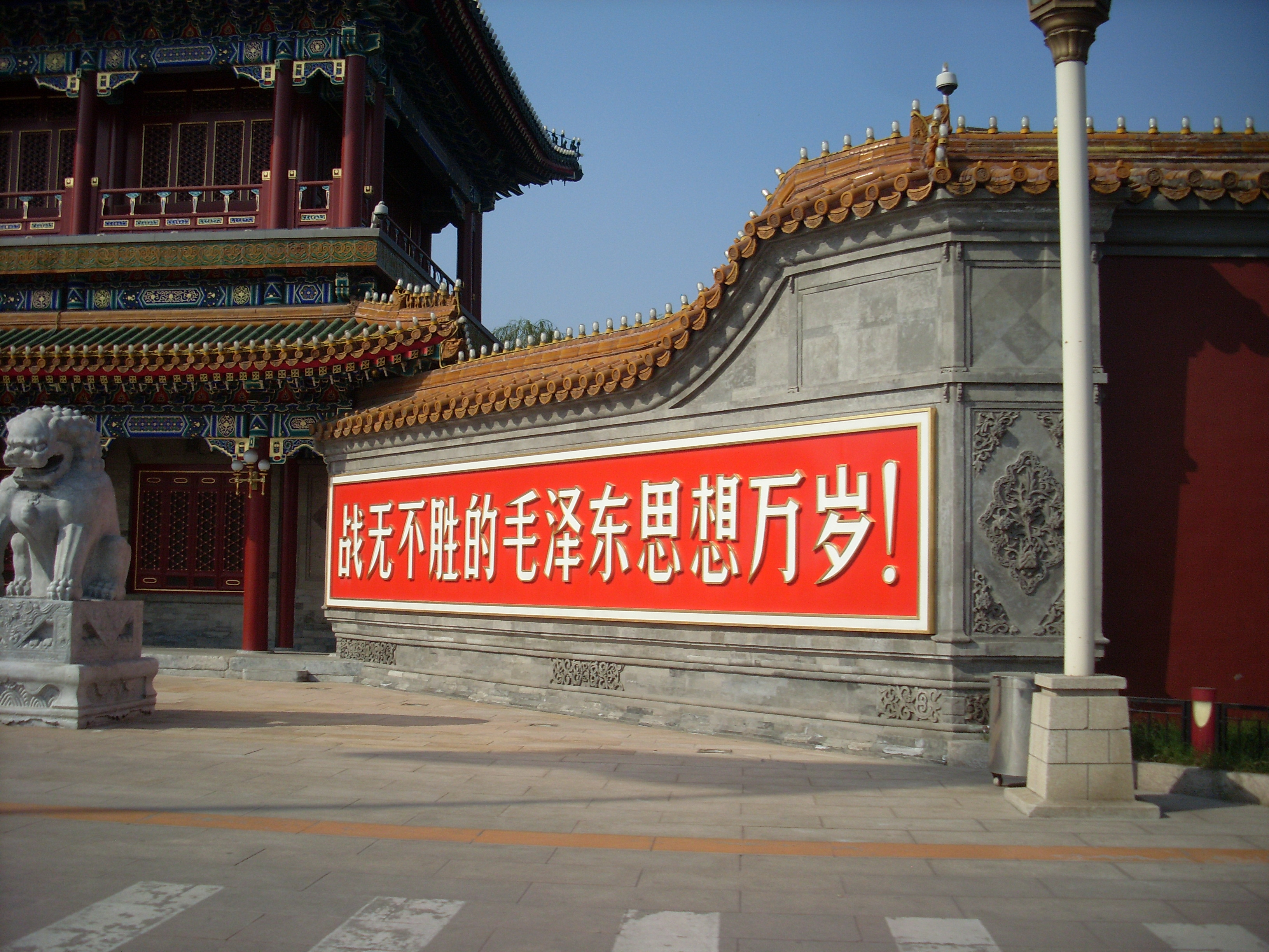 slogan "Long live the invincible Mao Zedong Thought" in Xinhuamen, Beijing 中文（中国大陆）: 新华门右标语：战无不胜的毛泽东思想万岁